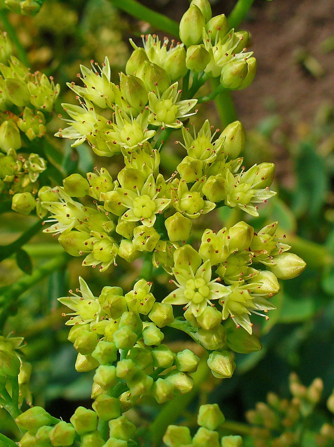 Hylotelephium telephium ssp. maximum , Crassulaceae, Orpine, Livelong, Frog's-stomach, Harping Johnny, Life-everlasting, Live-forever, Midsummer-men, Orphan John, Witch's Moneybags, flowers.